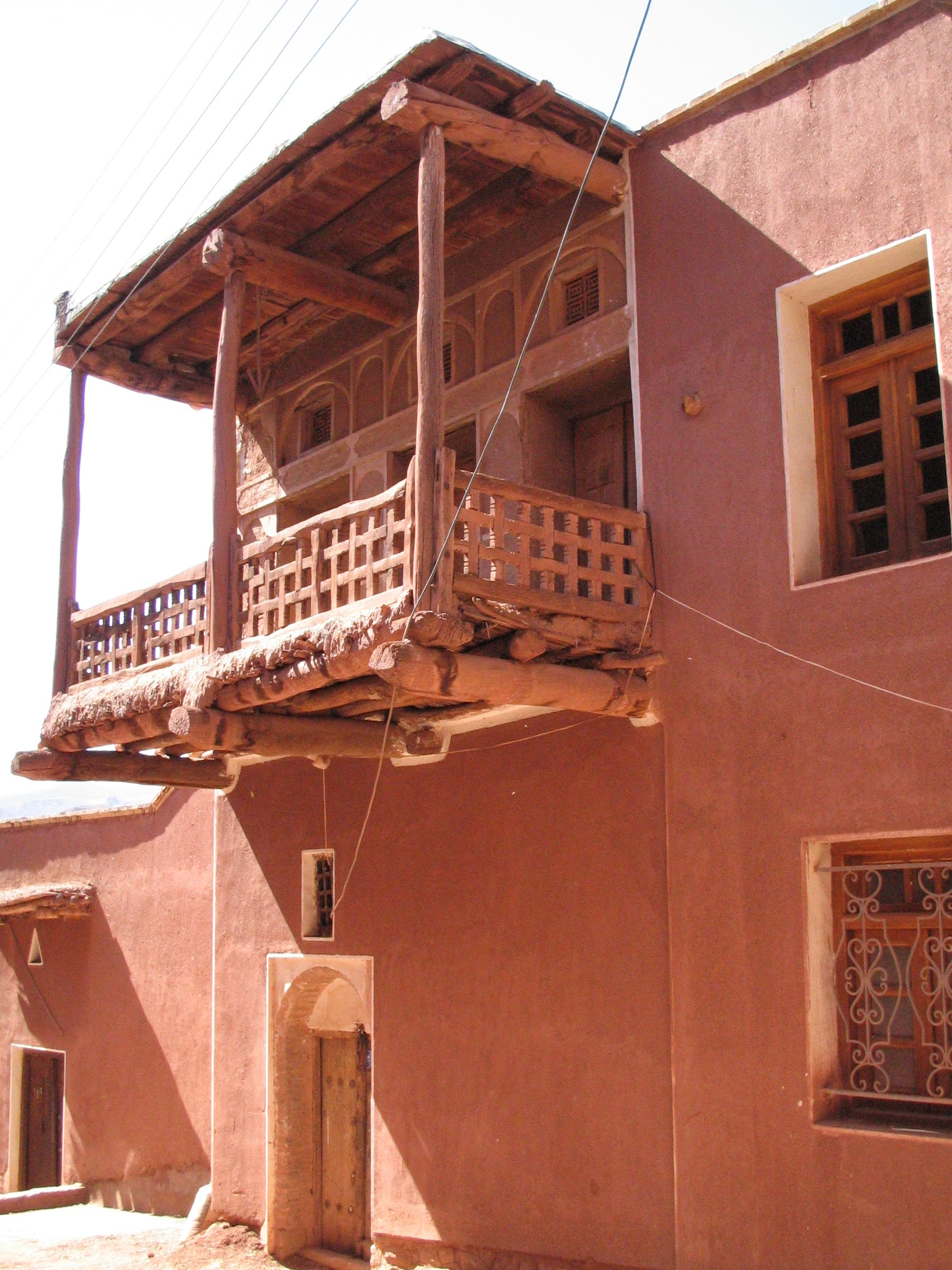 A traditional house and balcony — in the village of Abyaneh, near Kashan, Iran.